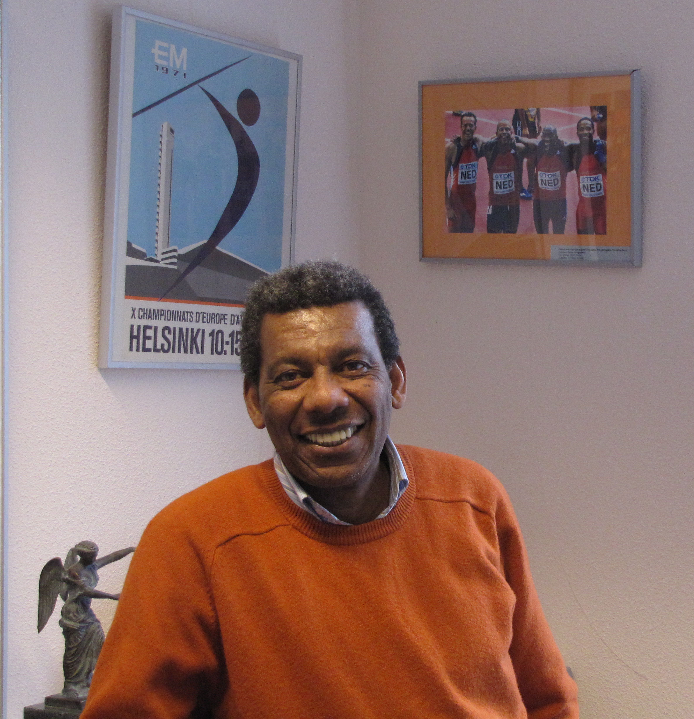 Raymond Heerenveen in the office of the Dutch Athletics Association at Papendal, 2010